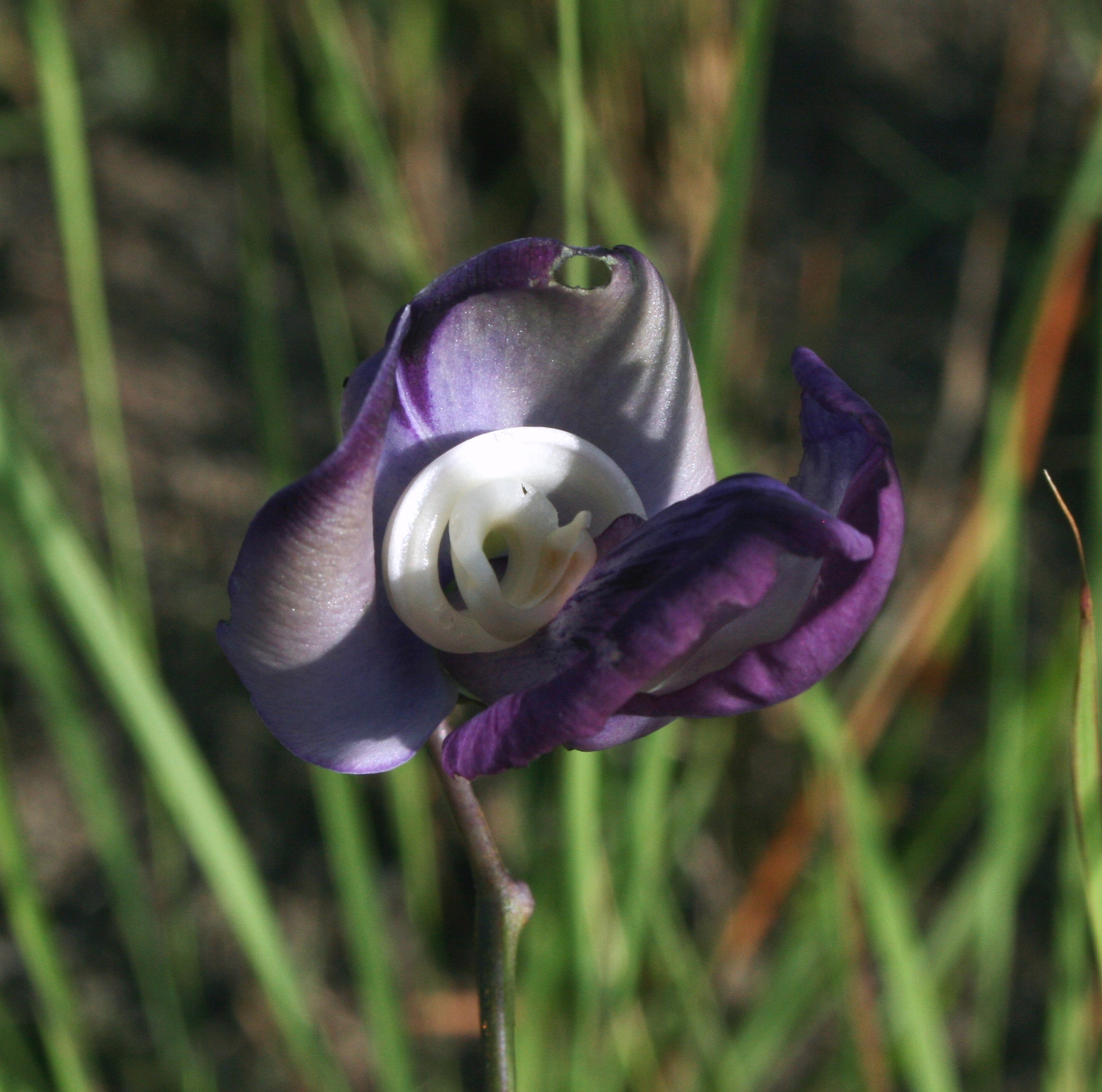 Flower of Macroptilium lathyroides, savana near Cacuri, Venezuela